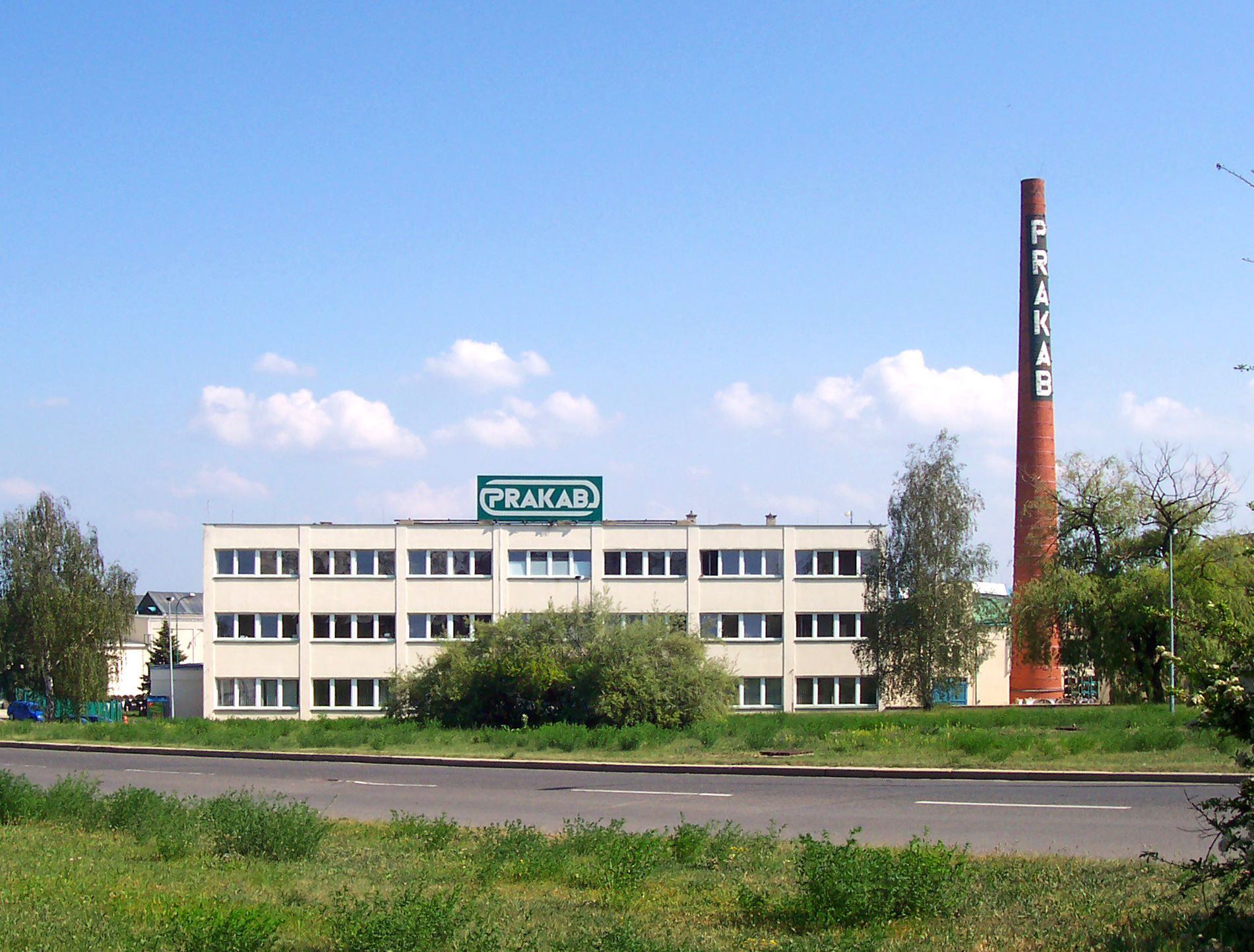 Factory Prakab at Hostivař, Prague